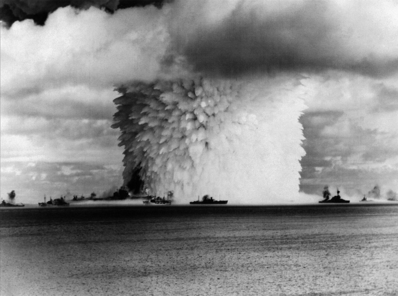 Crossroads Baker nuclear weapons test, 26 July 1946: view taken from Eneu island ten seconds after the weapon was fired. The aircraft carrier USS Saratoga (CV-3) is visible in the left foreground, being lifted out of the water. She sank later that day.